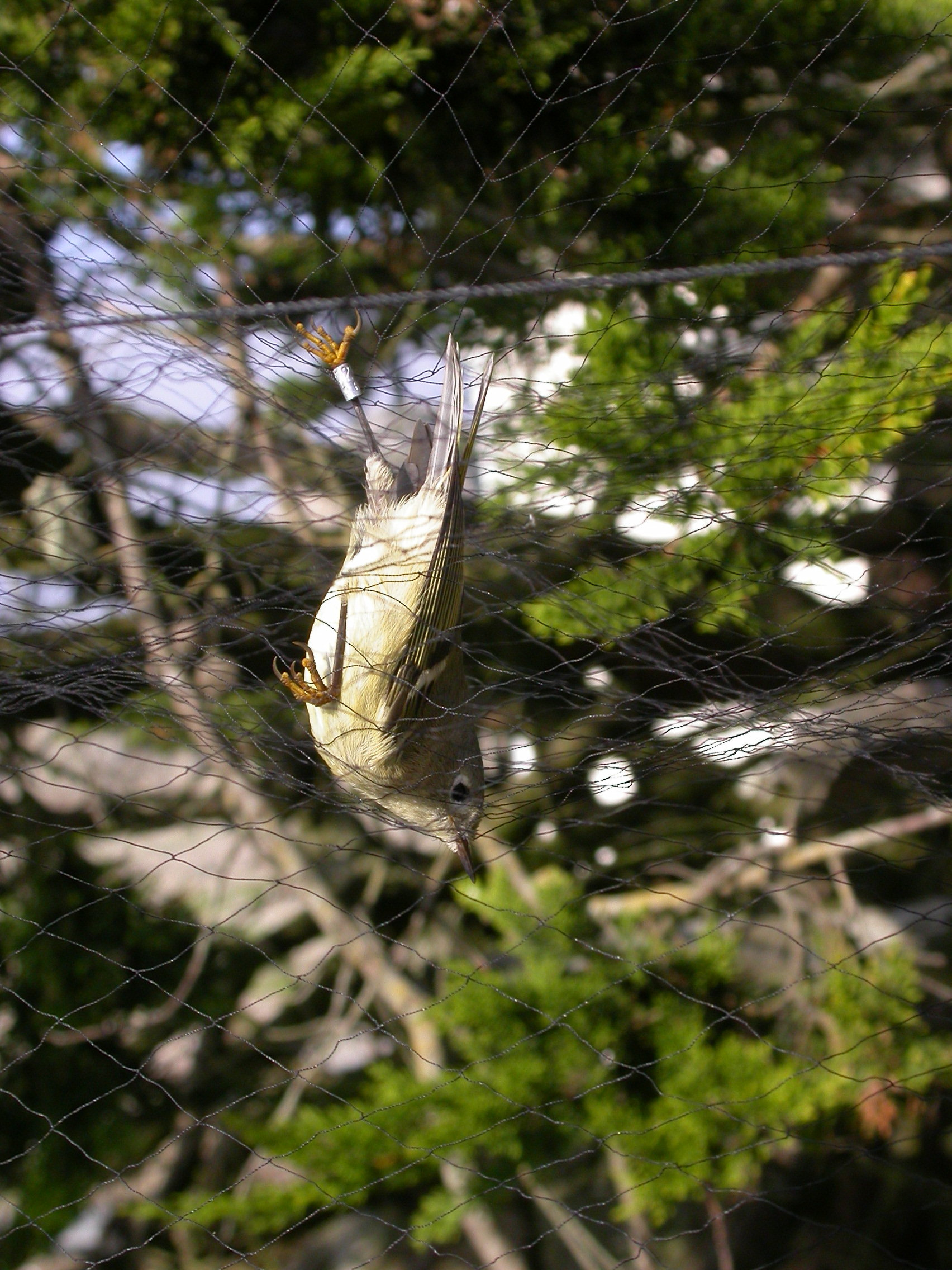 A ruby-crowned kinglet (Regulus calendula), previously banded, caught in a mist net. Photo taken by Duncan Wright (Sabine's Sunbird) on the Farallon Islands, in 2004.